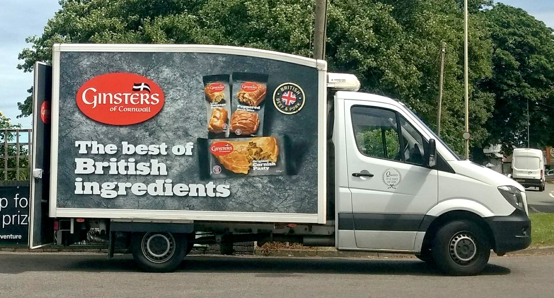 Ginsters van